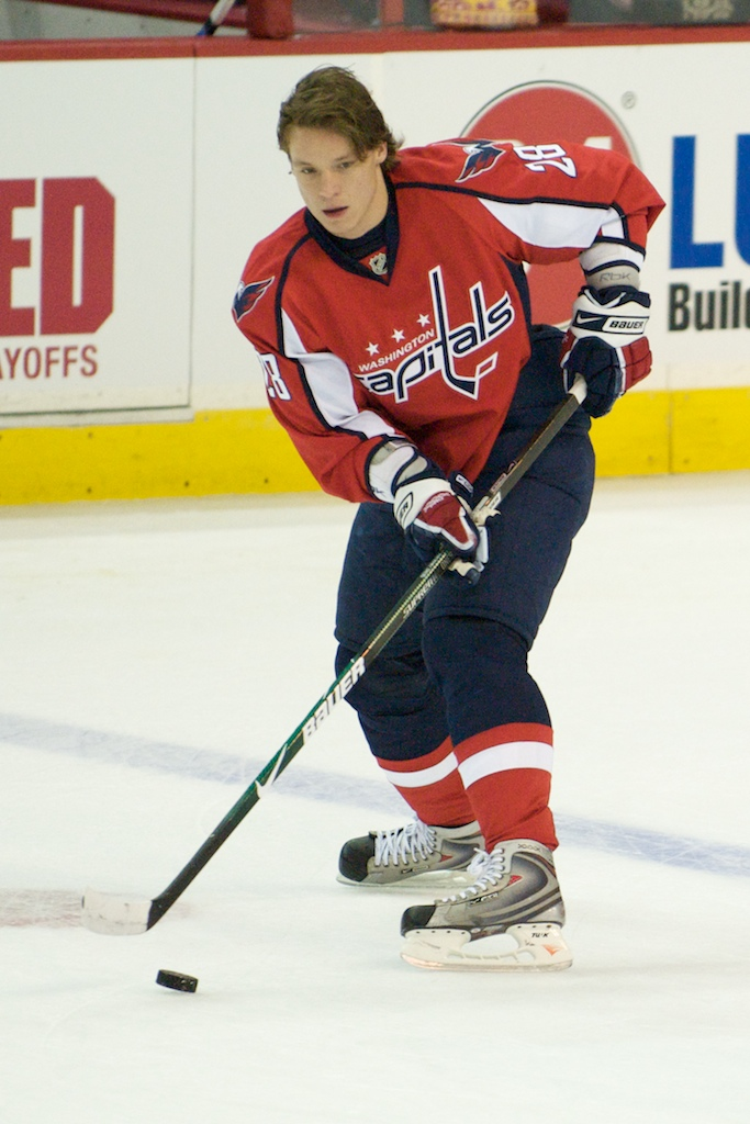 Alexander Semin during warmups of Game 2 of the Pittsburgh Penguins vs Washington Capitals 2009 Stanley Cup Conference Semifinals.